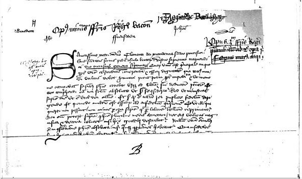 The first page of the letter in secretary hand from Roger Bacon to Pope Clement IV introducing his Opus Tertium